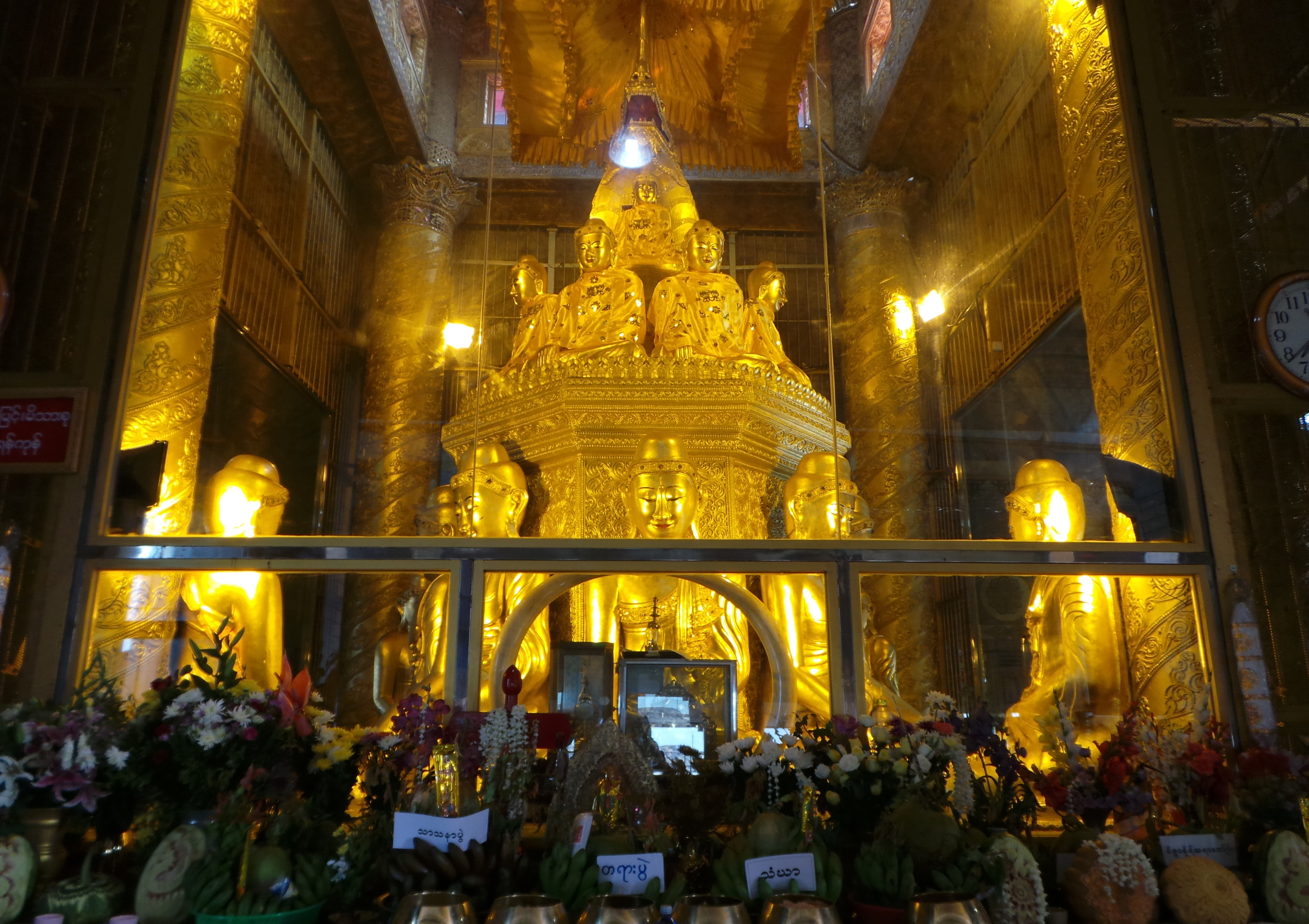 Kyaikkhami Yele Pagoda Buddha Homage, Kyaikkhami, Mon State မြန်မာဘာသာ: ကျိုက္ခမီရေလယ်ဘုရား ဝတ်ကျောင်းတော်ကြီးအတွင်းရှိ ဗုဒ္ဓရုပ်ပွားတော်၊ ကျိုက္ခမီ၊ မွန်ပြည်နယ်